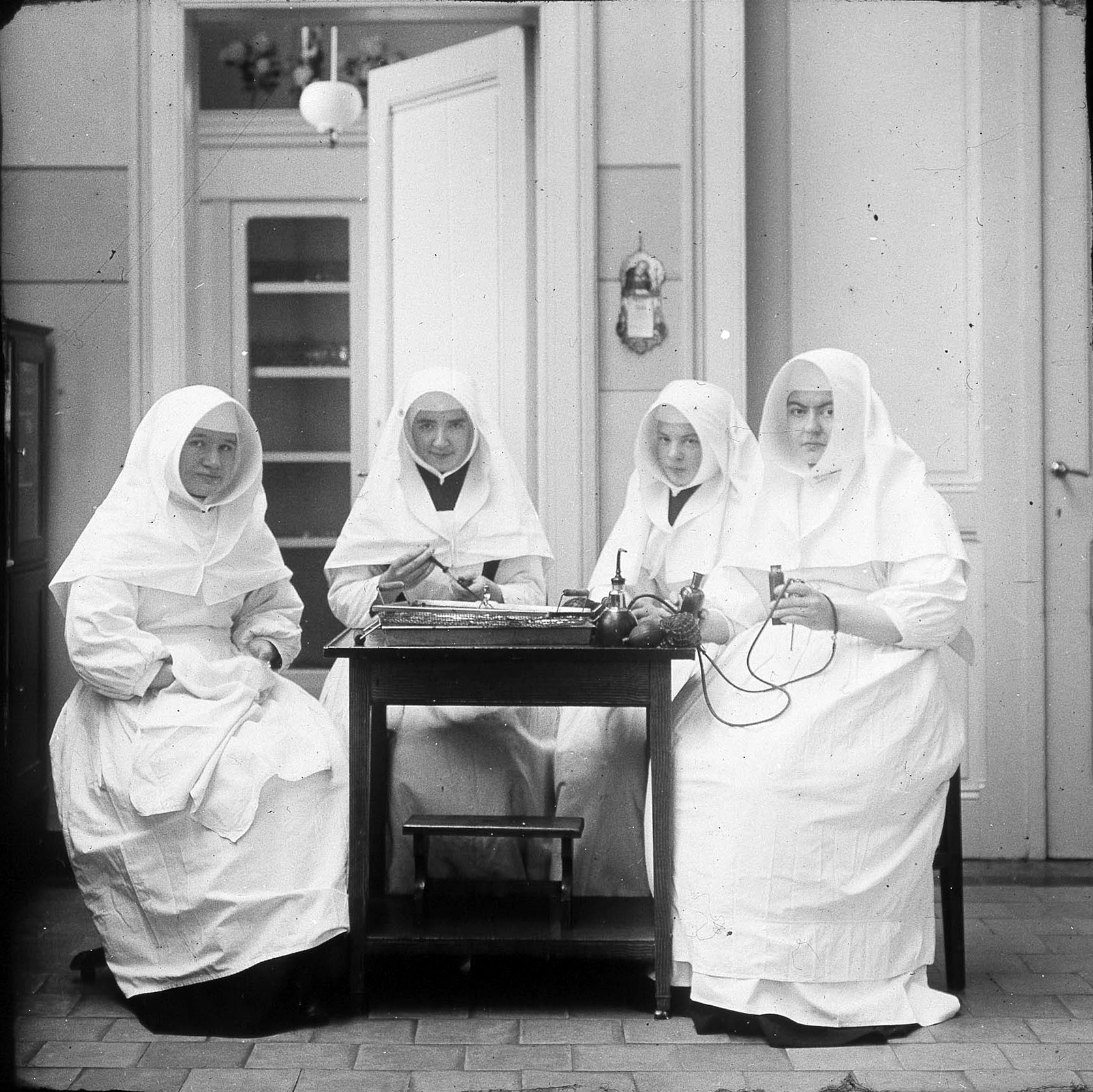 Four nurses around a table with instruments in the laboratory of Calvariënberg Hospital in Maastricht, Netherlands. The nurses are all Sisters of Mercy of St. Borromeo. The photograph was taken around 1900 by Dr. Lambert Th. van Kleef, a famous surgeon in his time who was director of Calvariënberg from 1881 until 1904. He was also a dedicated photographer. Collection of RHCL, Maastricht, ref. nr. VKG 059.